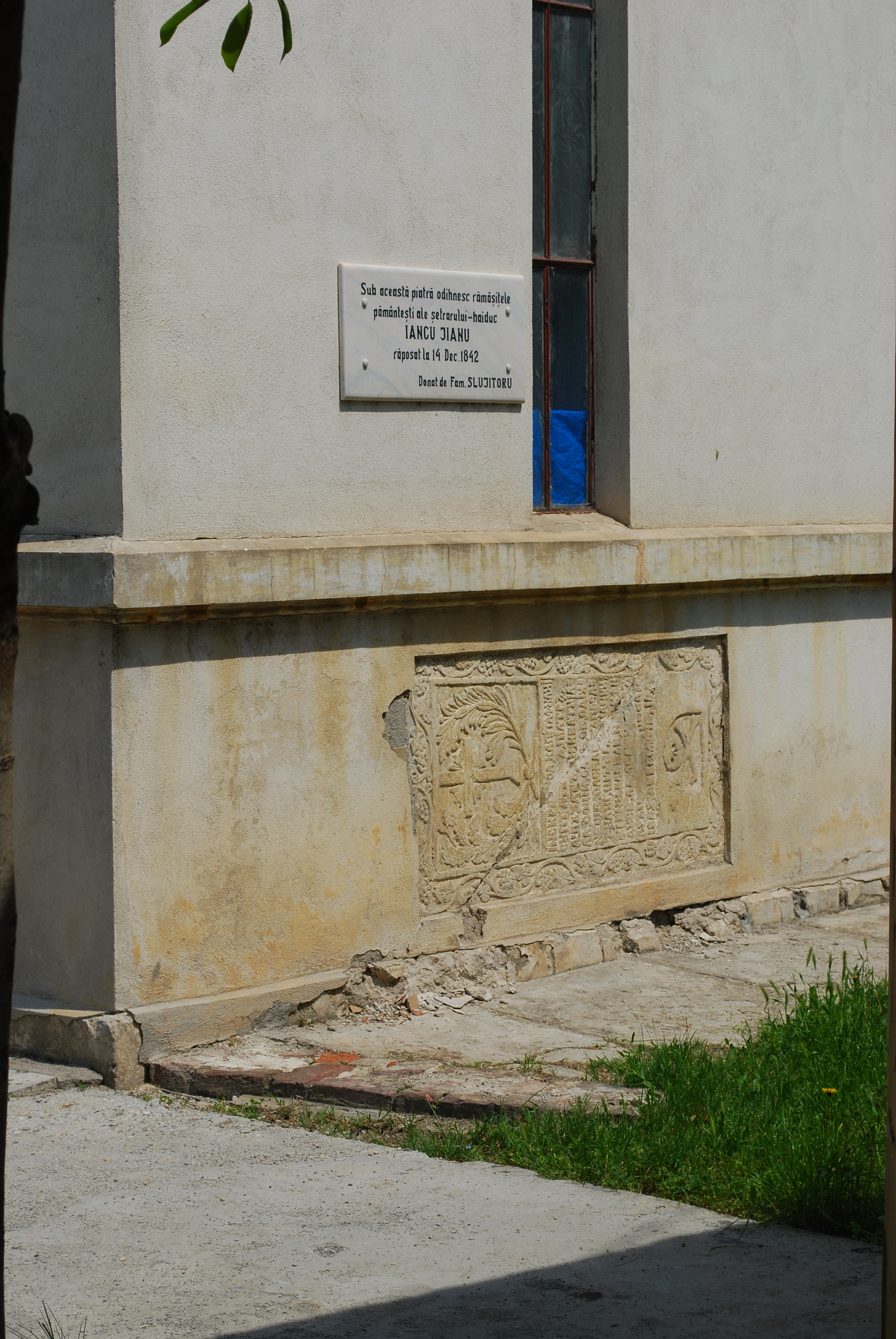 The tombstone of Iancu Jianu in Caracal, Romania